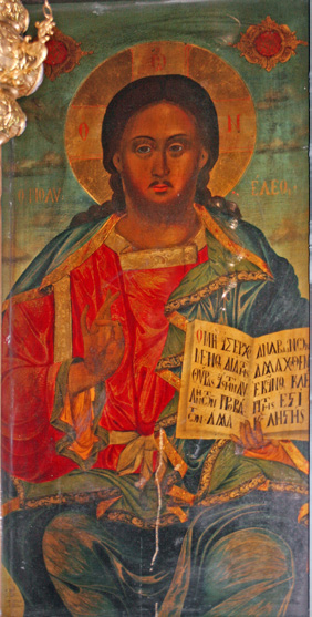 Christ Pantokrator Polyeleos Icon in Saint Athanasius Church in Livadi, Sterios Dimitriou, 1844